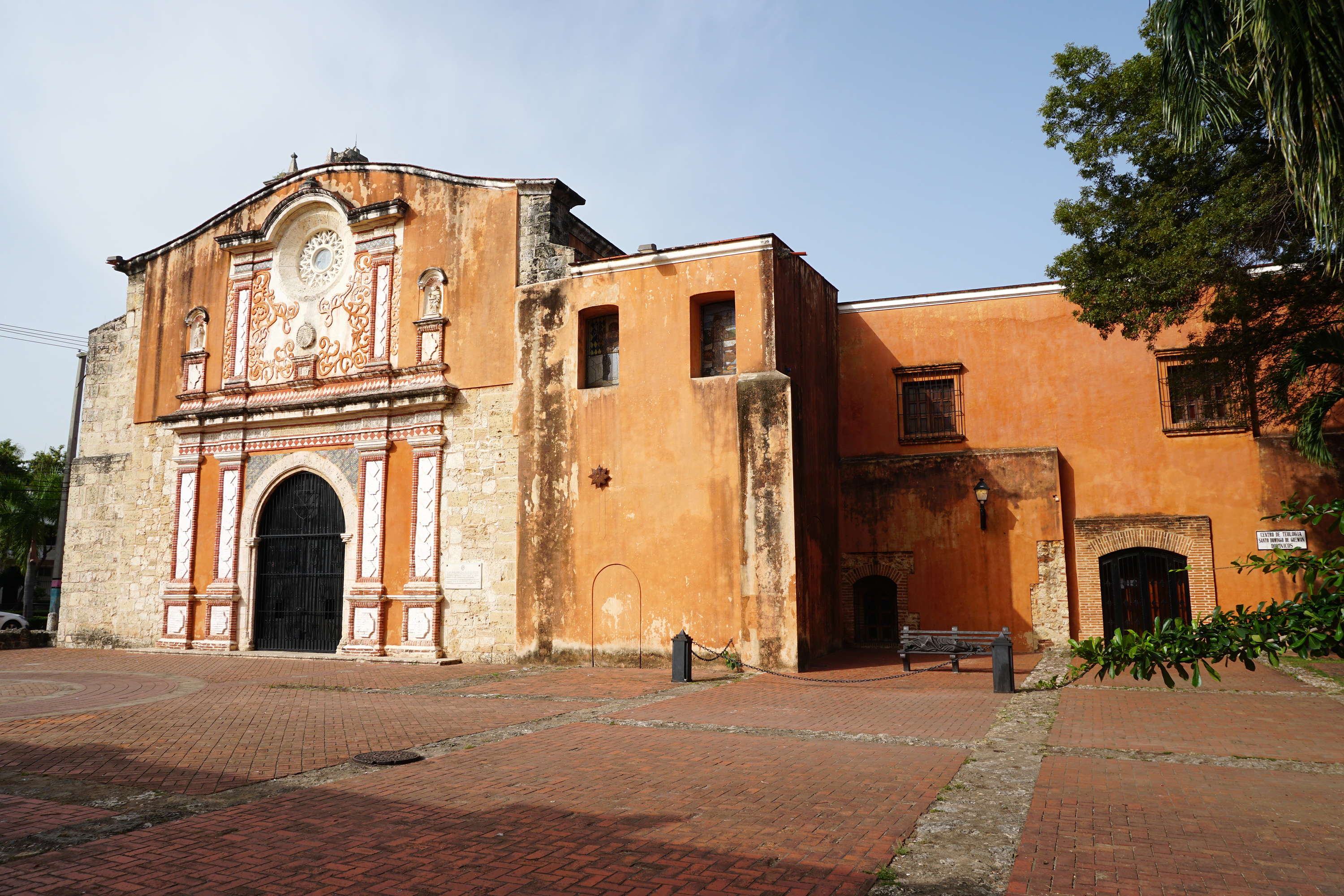 Dominican Order Church and Convent Ciudad Colonial, Santo Domingo, Dominican Republic.